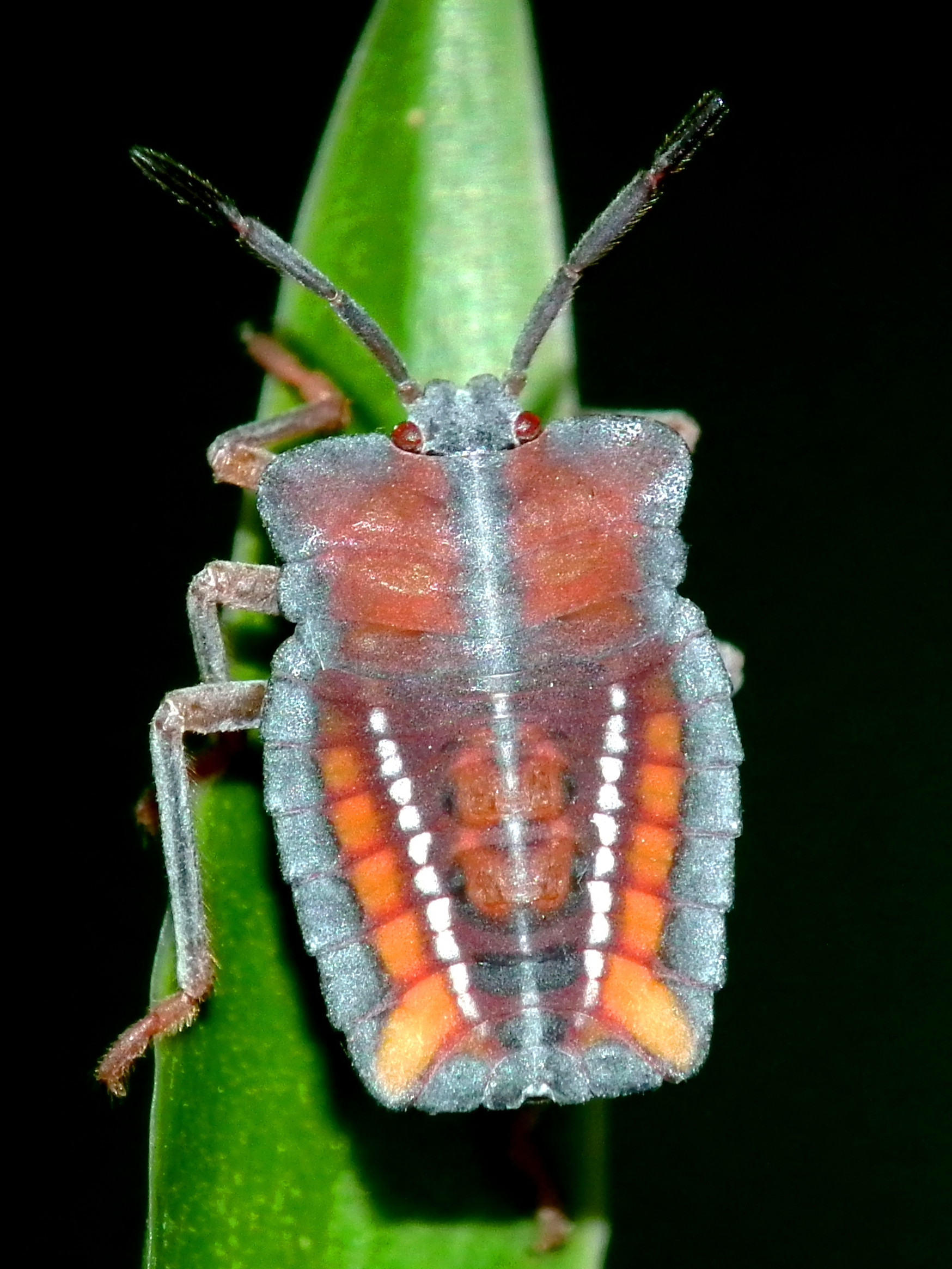 Saw near my home .